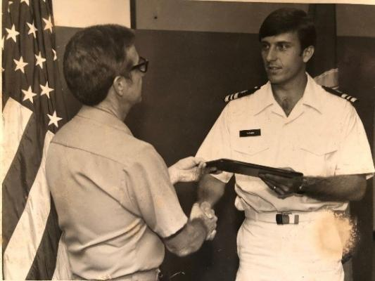 Navy Medical Officer